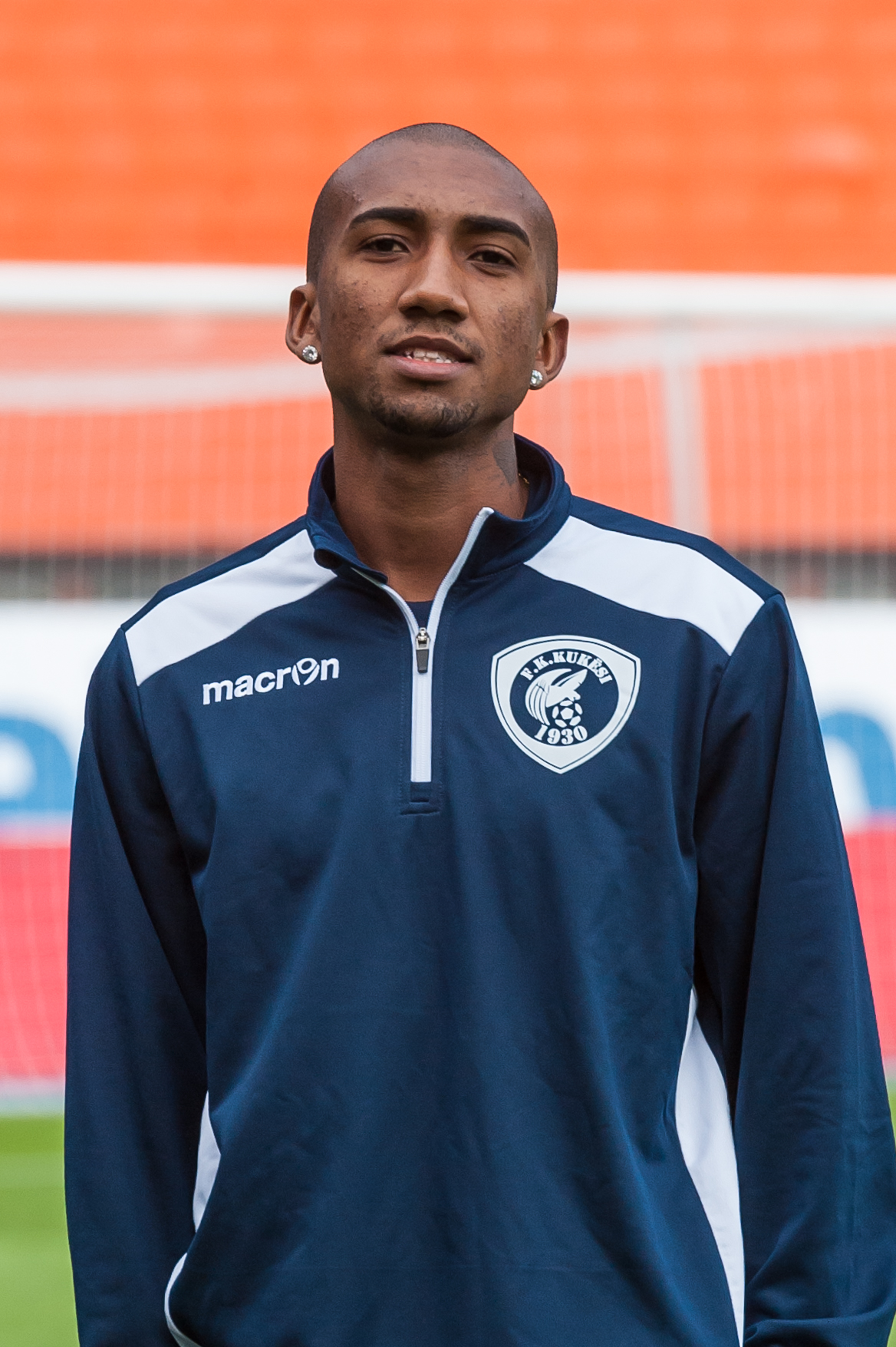 UEFA Europa League - FK Austria Wien vs FK Kukesi, 2016-07-14.